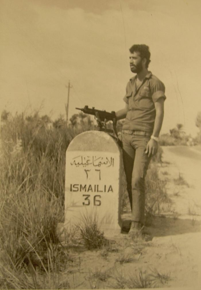 Israeli soldier on the road to Ismailiya